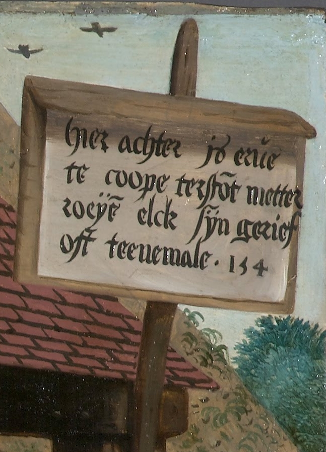 Close-up view of the placard in A Meat Stall with the Holy Family Giving Alms. In Flemish it reads as "behind here are 154 rods of land for sale immediately, either by the rod according to your convenience or all at once."